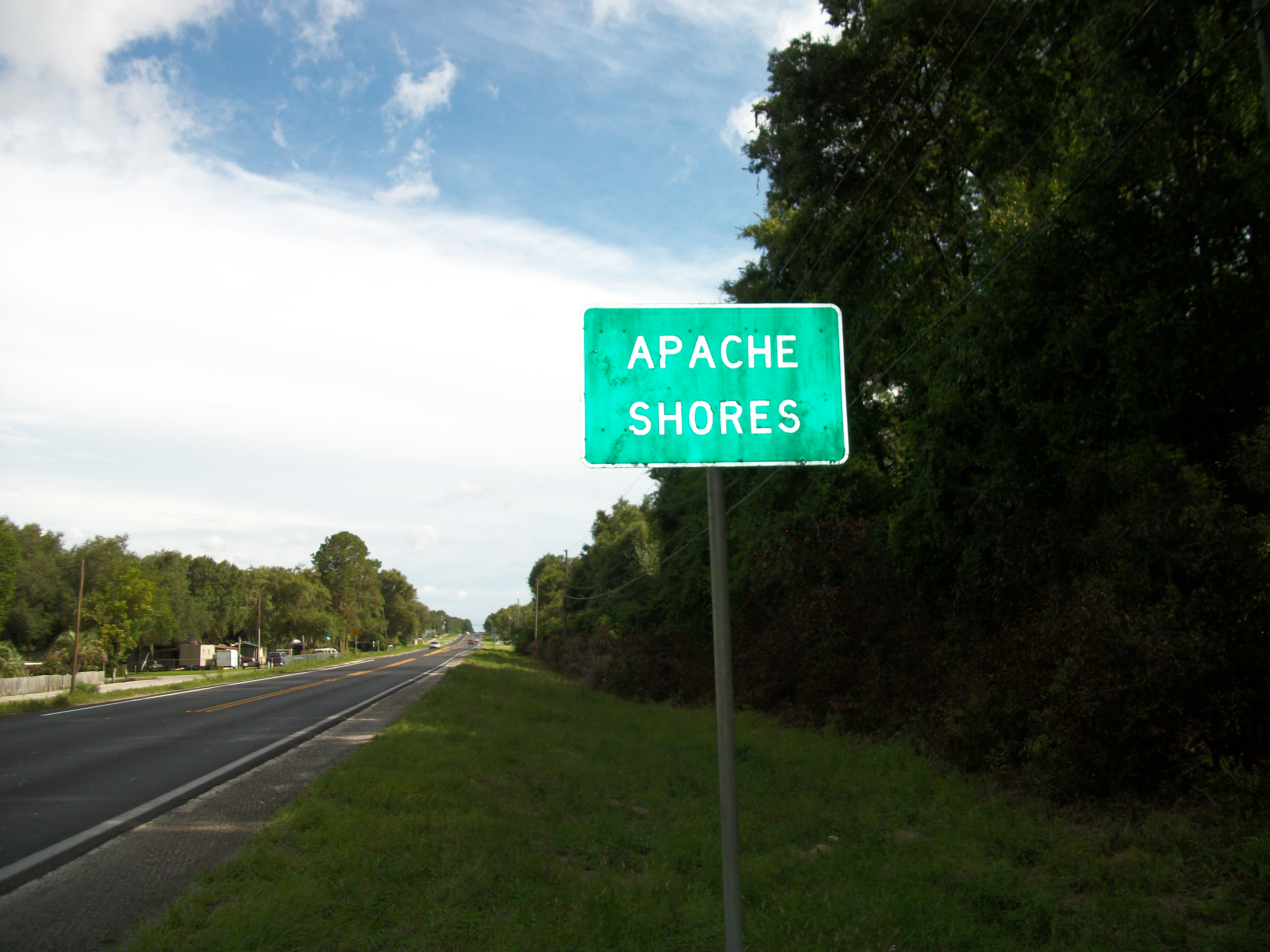 Southbound Florida State Road 200 as it enters the unincorporated beachfront community of Apache Shores, Florida in northeastern Citrus County, Florida.